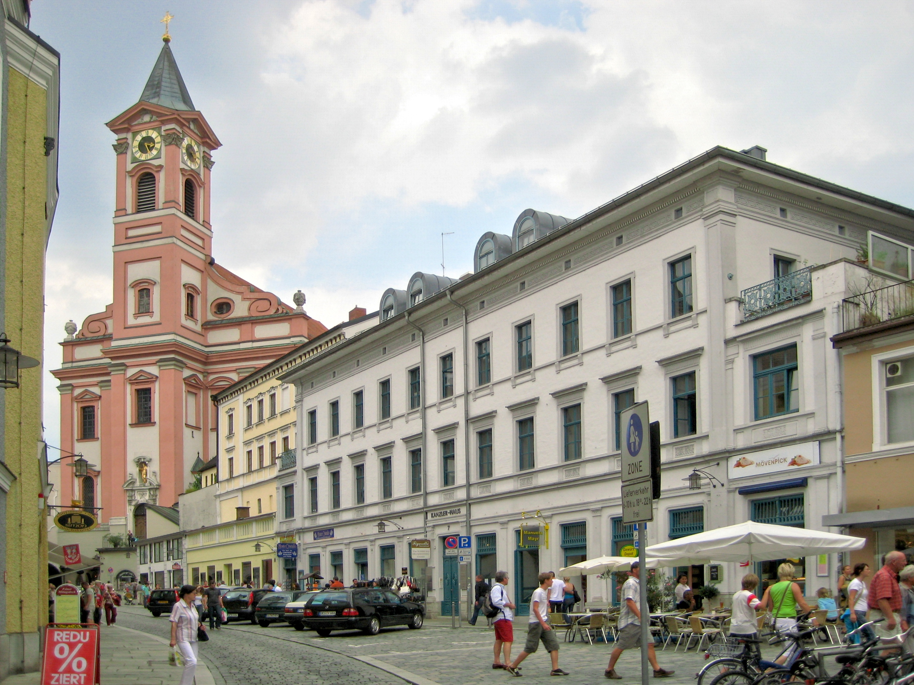 Rindermarkt, Passau